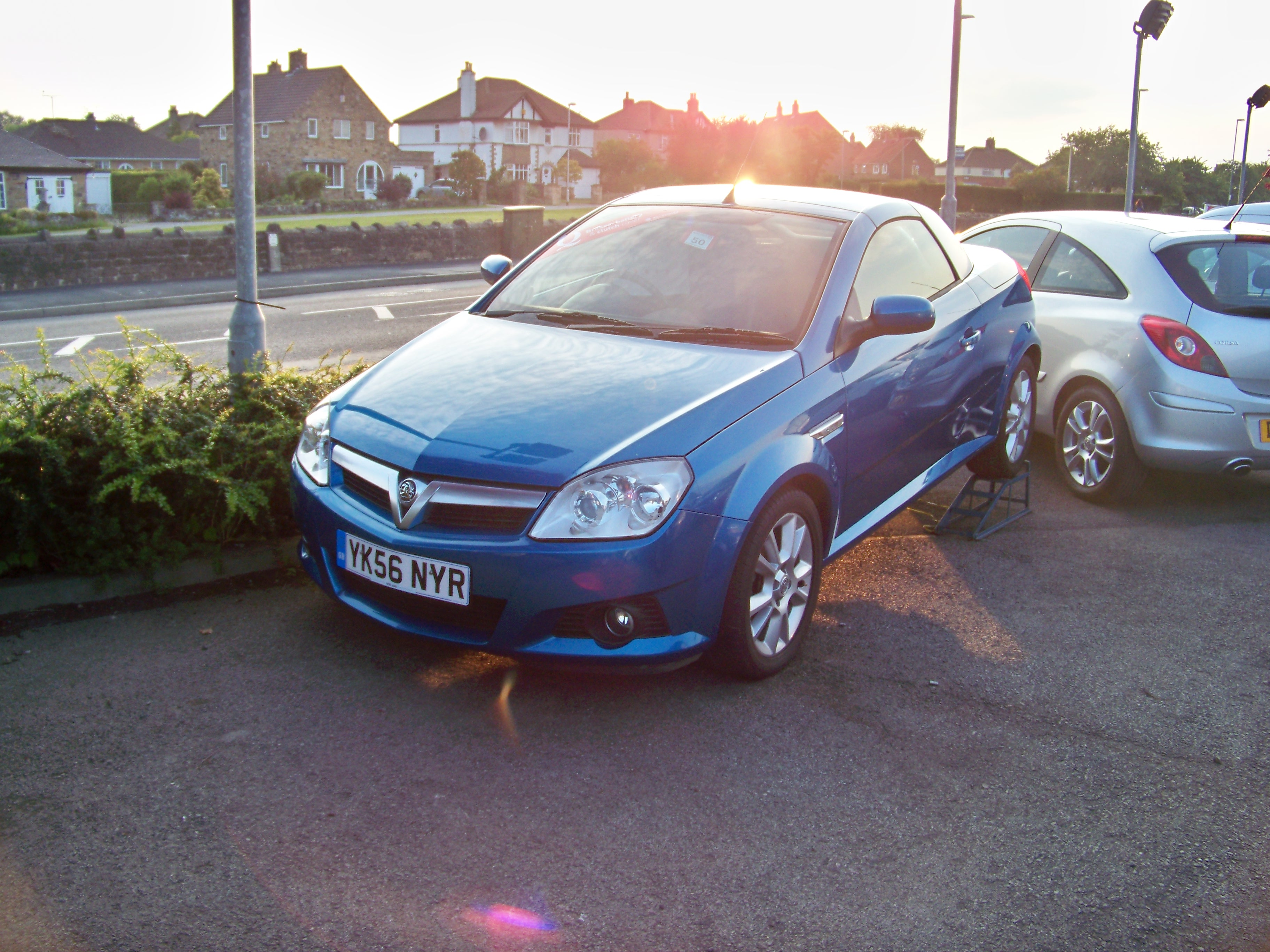 Vauxhall Tigra. Taken in Wetherby, West Yorkshire, UK. 2nd June 2009.